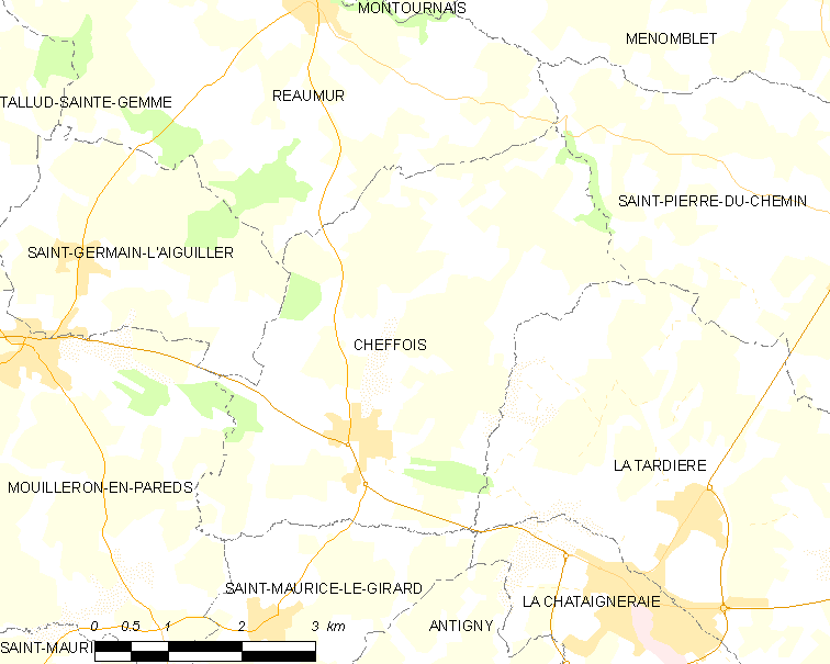 Map of French municipality Cheffois